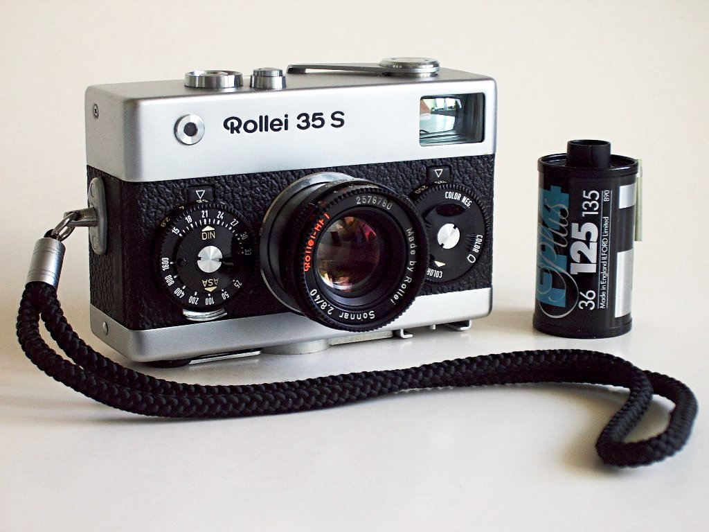 Rollei 35 S. Smallest non-electronic-shutter 35mm camera ever made.